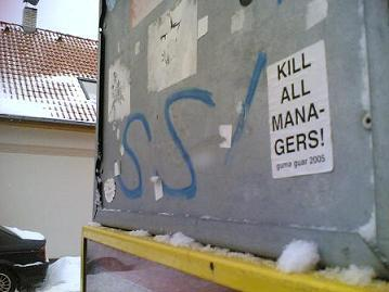 Sticker campaign by Groupe Guma Guar